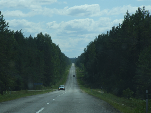 Driving the state main road, A 2, Latvia